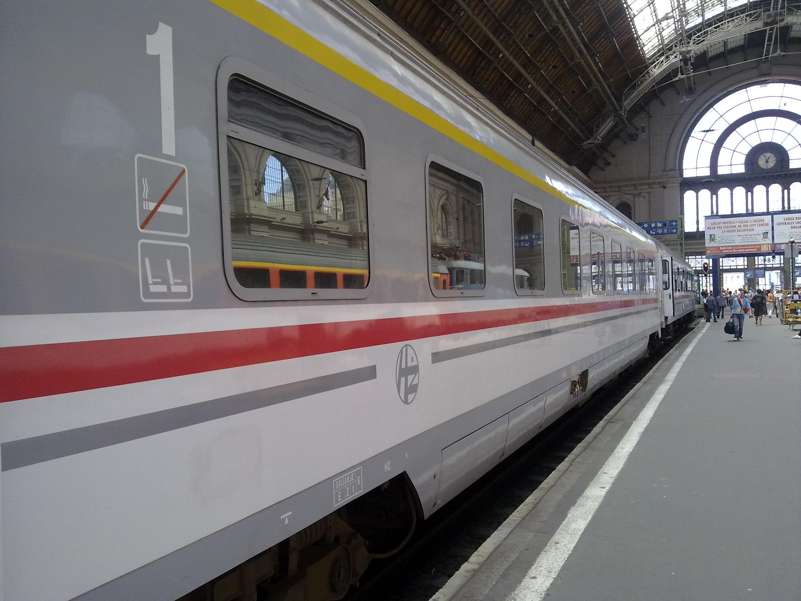 First class coach of Hrvatske željeznice (Croatian Railways) at Budapest Keleti station.